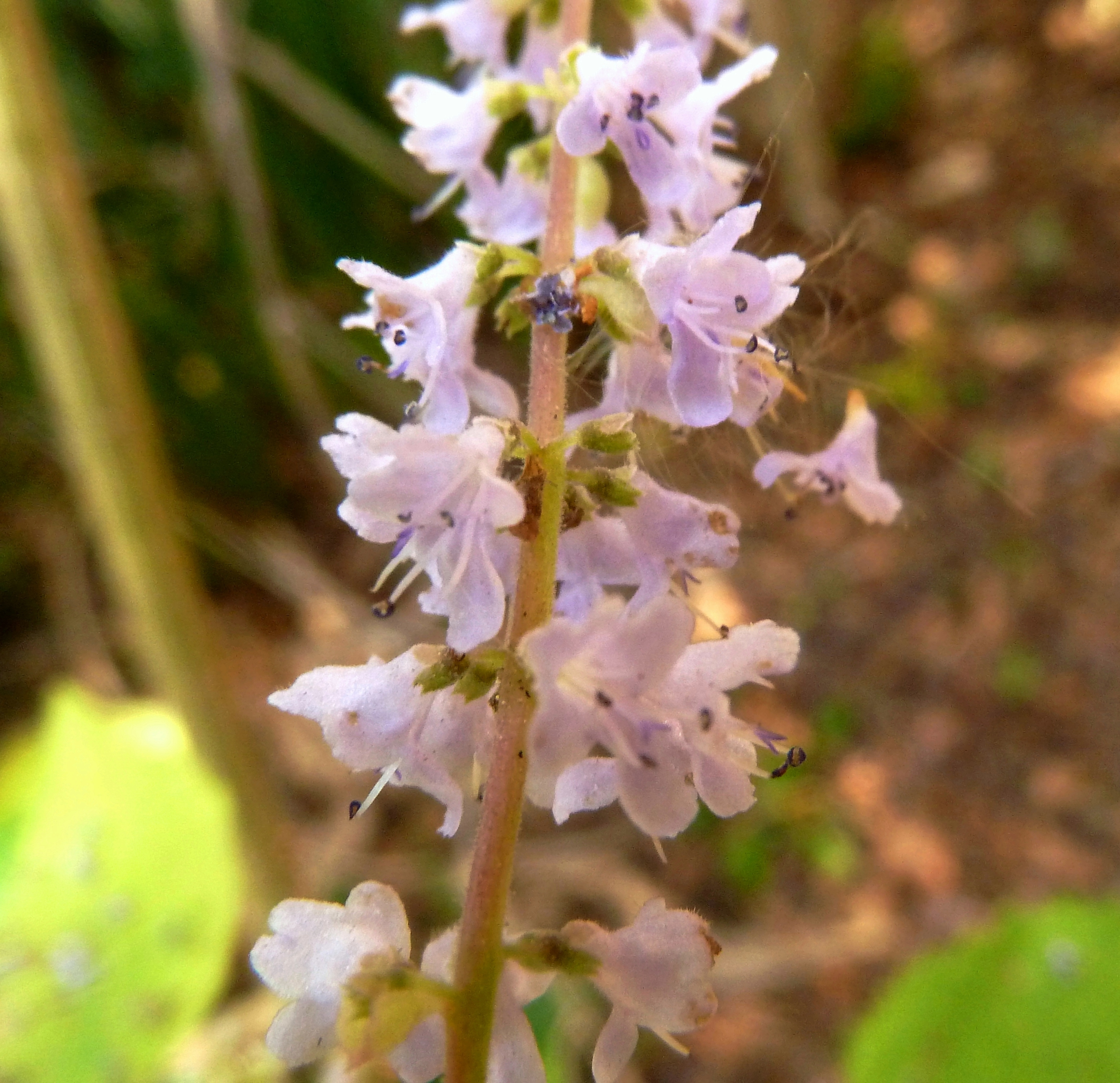 Inflorescence of Tetradenia riparia in the Manie van der Schijff Botanical Garden